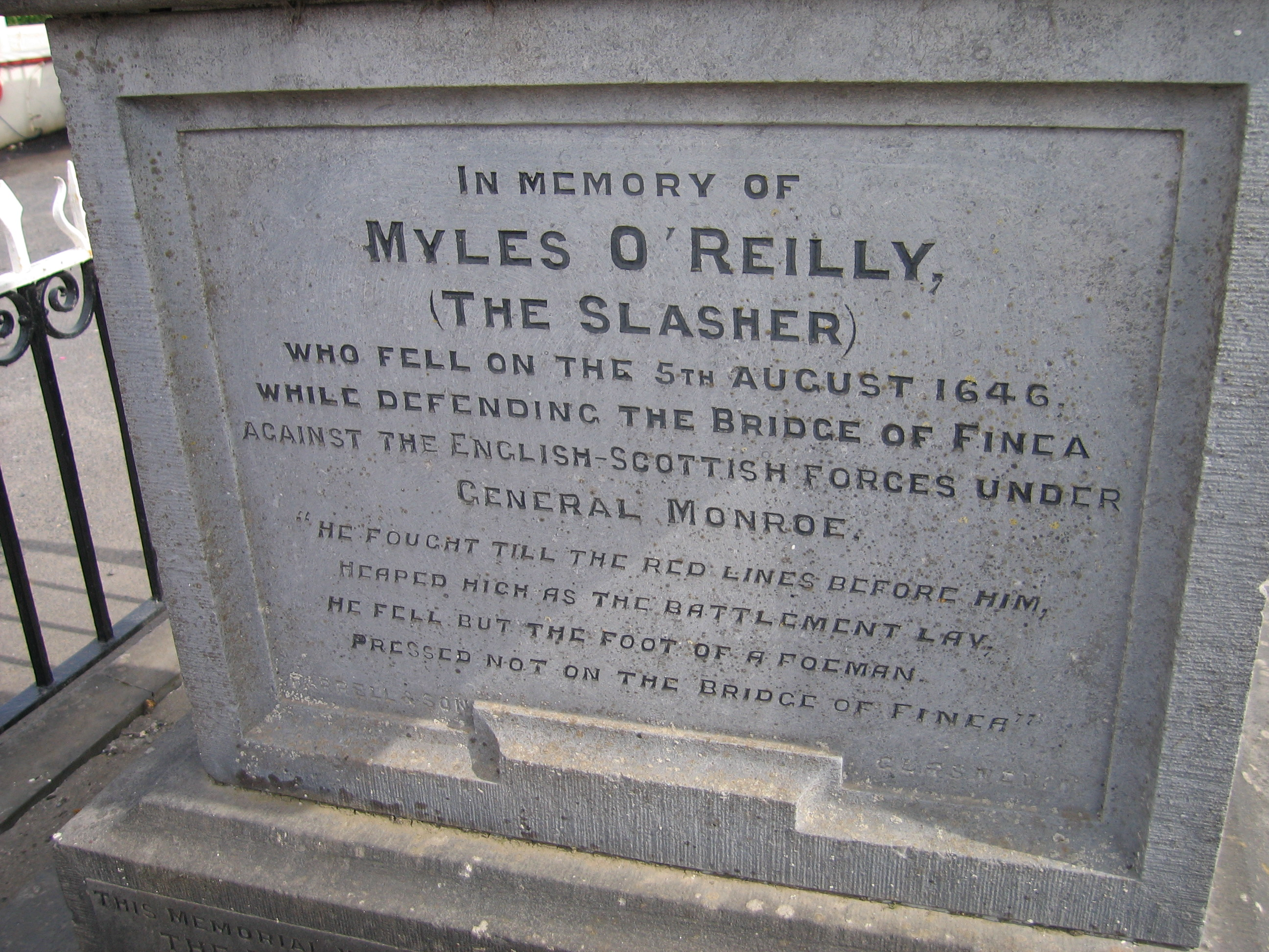 Inscription of the Myles O'Reilly memorial in Finea (Sarah777 20:17, 26 January 2007 (UTC))